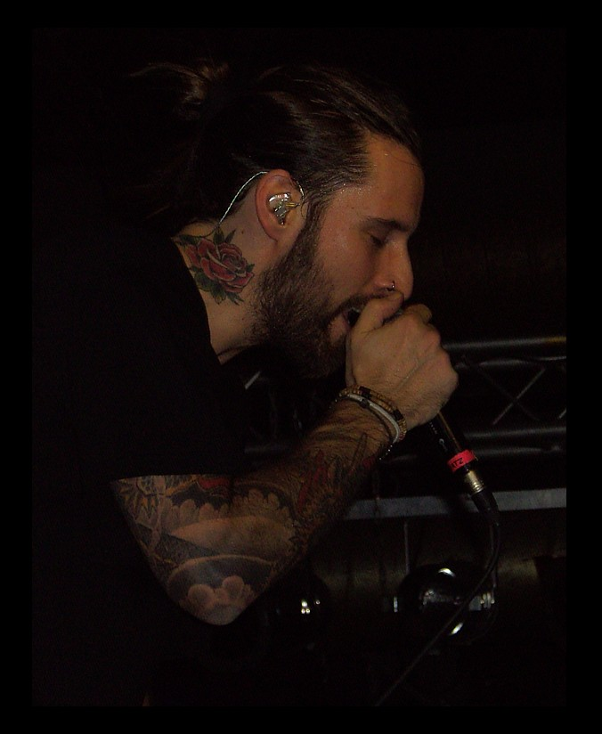 Daniel Wirtz at the Rockfabrik Ludwigsburg